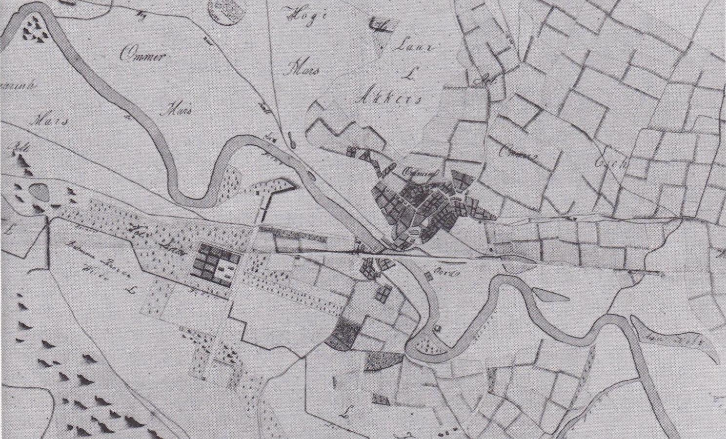 Sitiuation Ommen before fortification plans